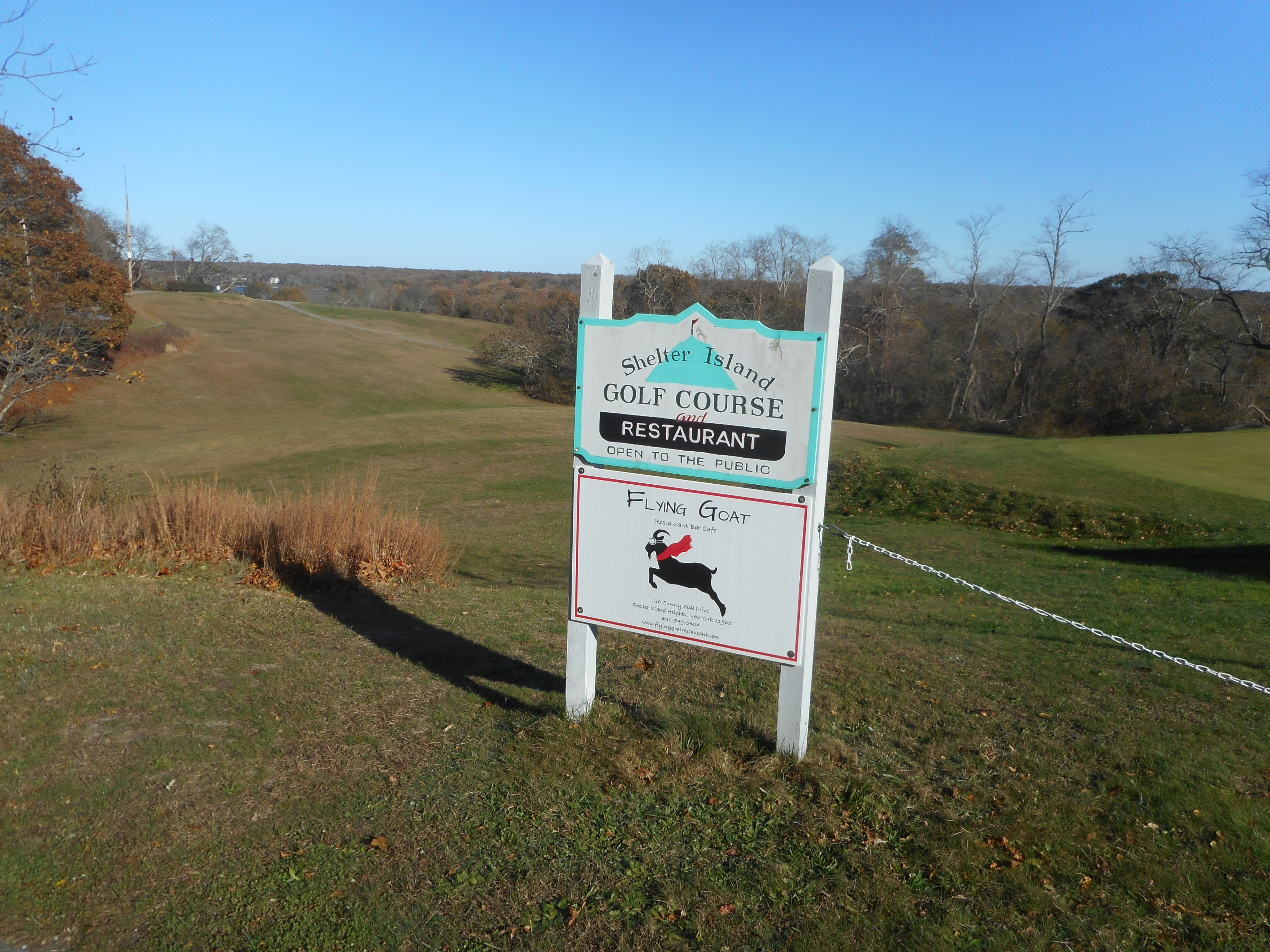 Sign at the Shelter Island Golf Course and Country Club in Shelter Island Heights, New York. On the National Register of Historic Places.